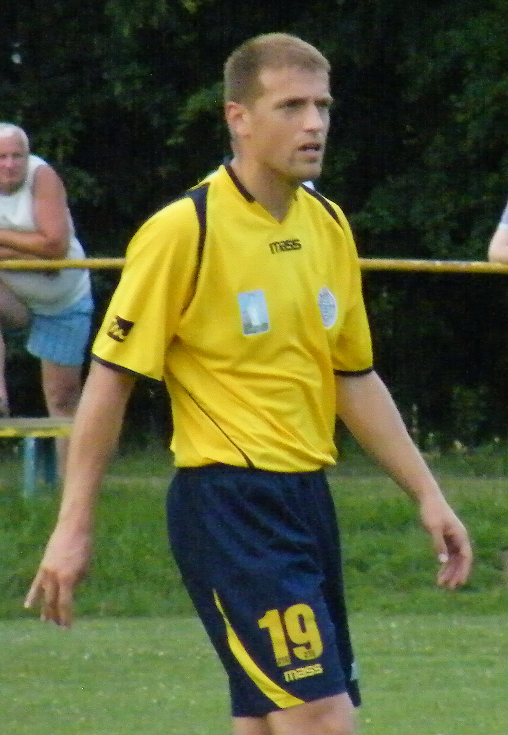 Đorđe Kamber Bosnian football player